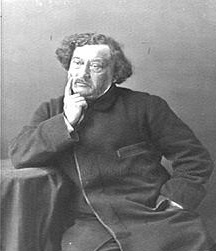 Portrait of French writer Léon Gozlan by Félix Nadar.